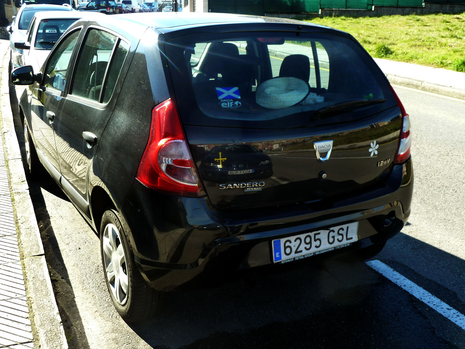 Cars